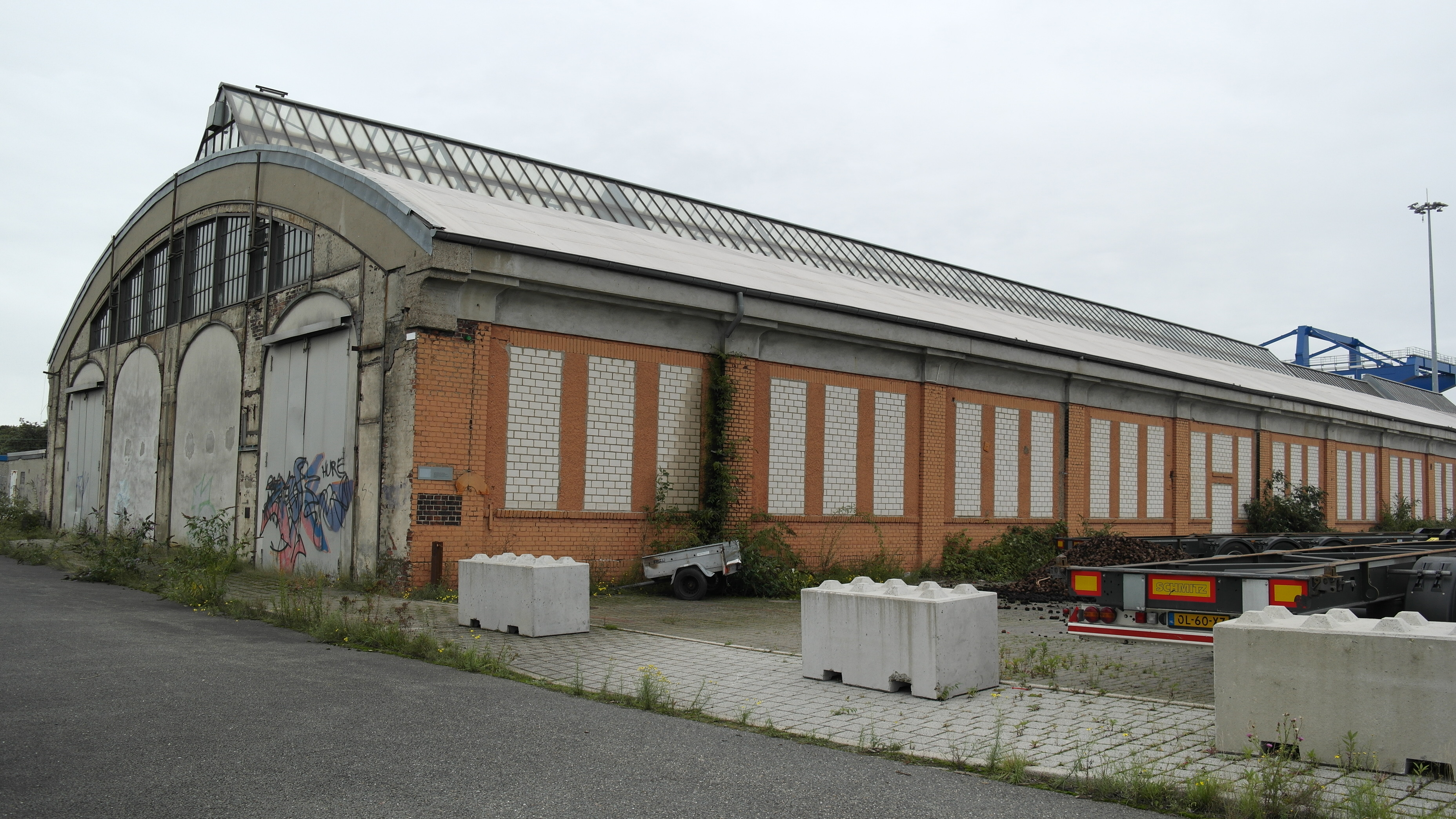 Waggon Hall Station Hohenbudberg, germany